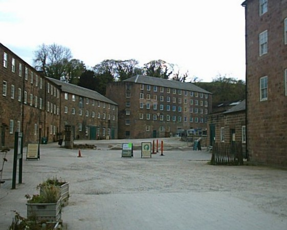 Arkright Mill, Cromford.